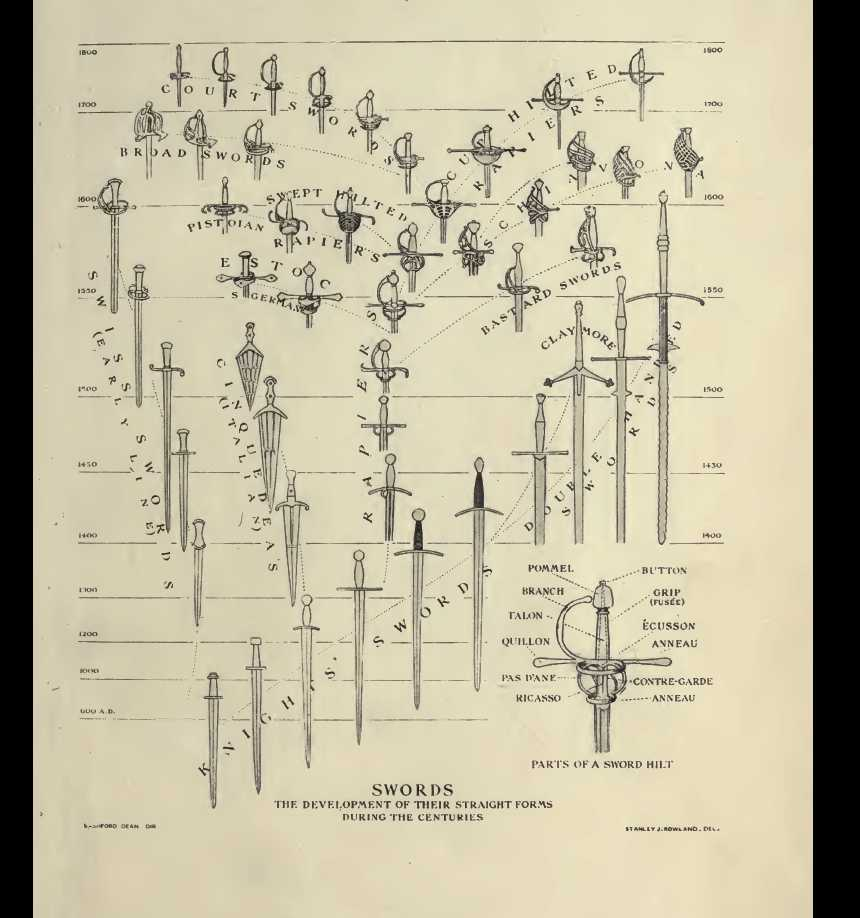 Bashford Dean compared the evolution of armour and weapons with biological evolution.